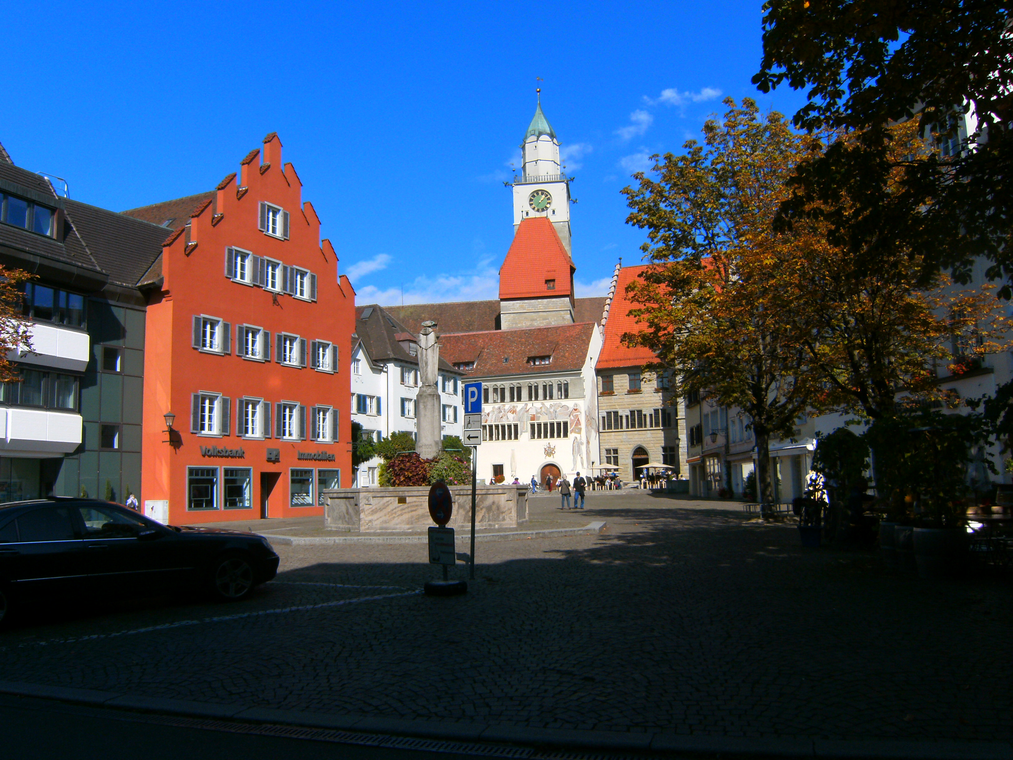 Überlingen, Germany: Hofstatt.